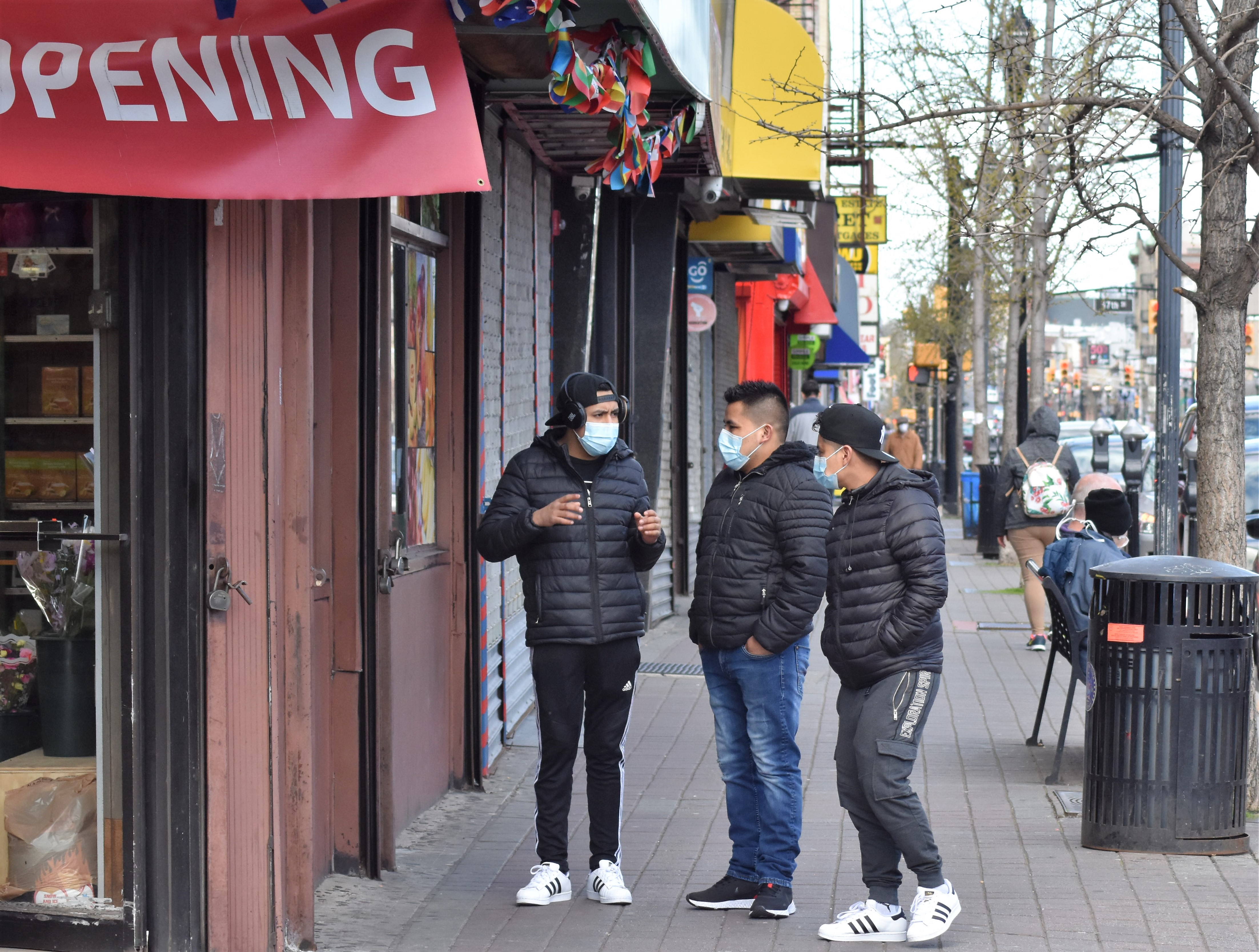 Three men in masks in West New York, NJ during the COVID-19 pandemic. 1 April 2020.